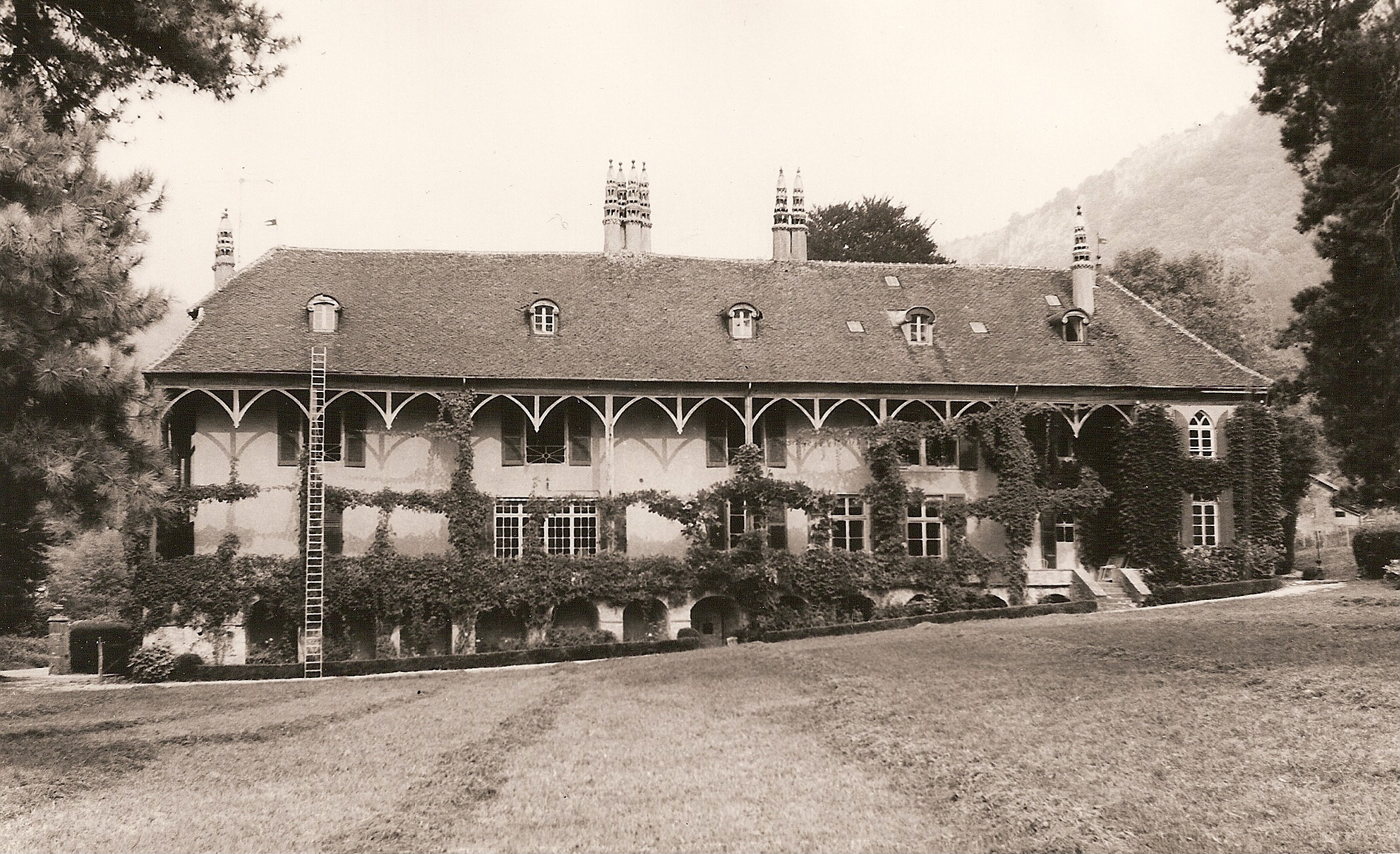 Gizia manor (Jura France)